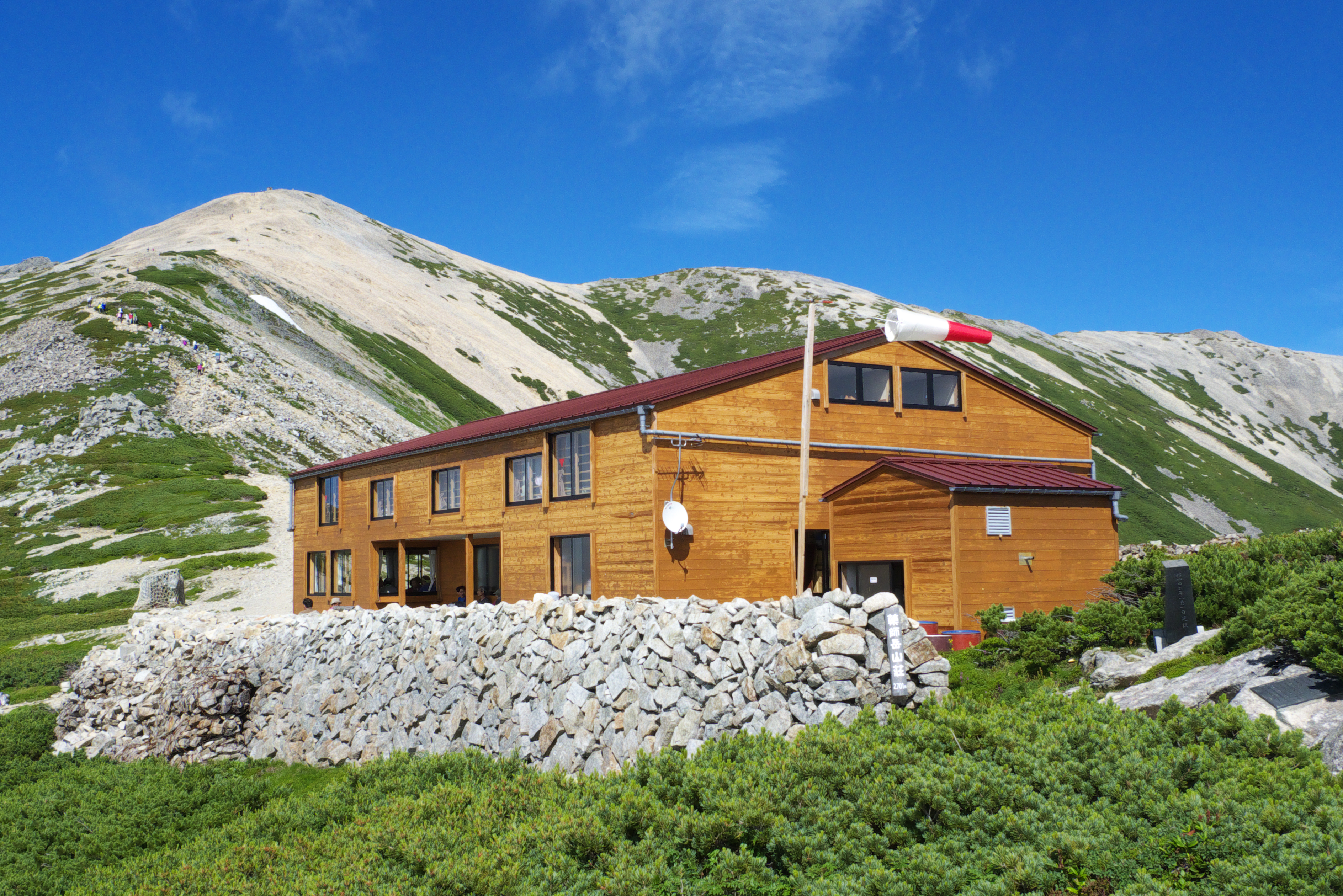 Yakushidake Sanso ("Mount Yakushi Hut") in the Hida Mountains, Japan